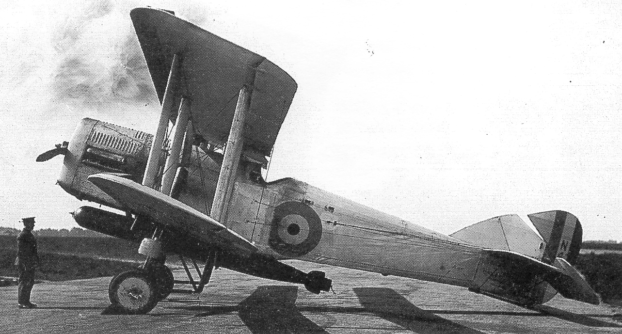 Handley Page Hanley I prototype, N143 in June 1923. Later modified as the Hanley II prototype.